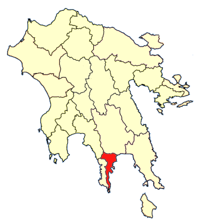 gytheio